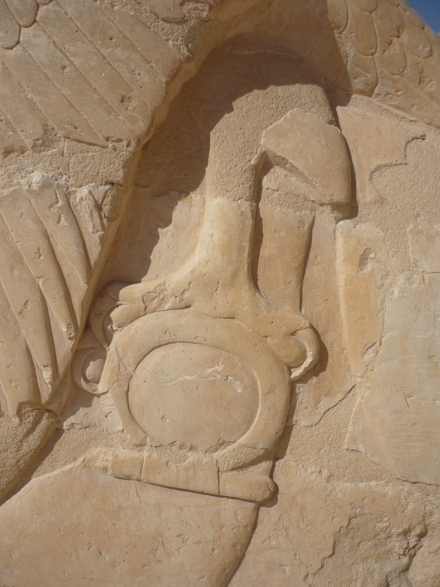 Shen ring, Hatshepsut temple, Deir el-Bahari, Theban Necropolis, Egypt